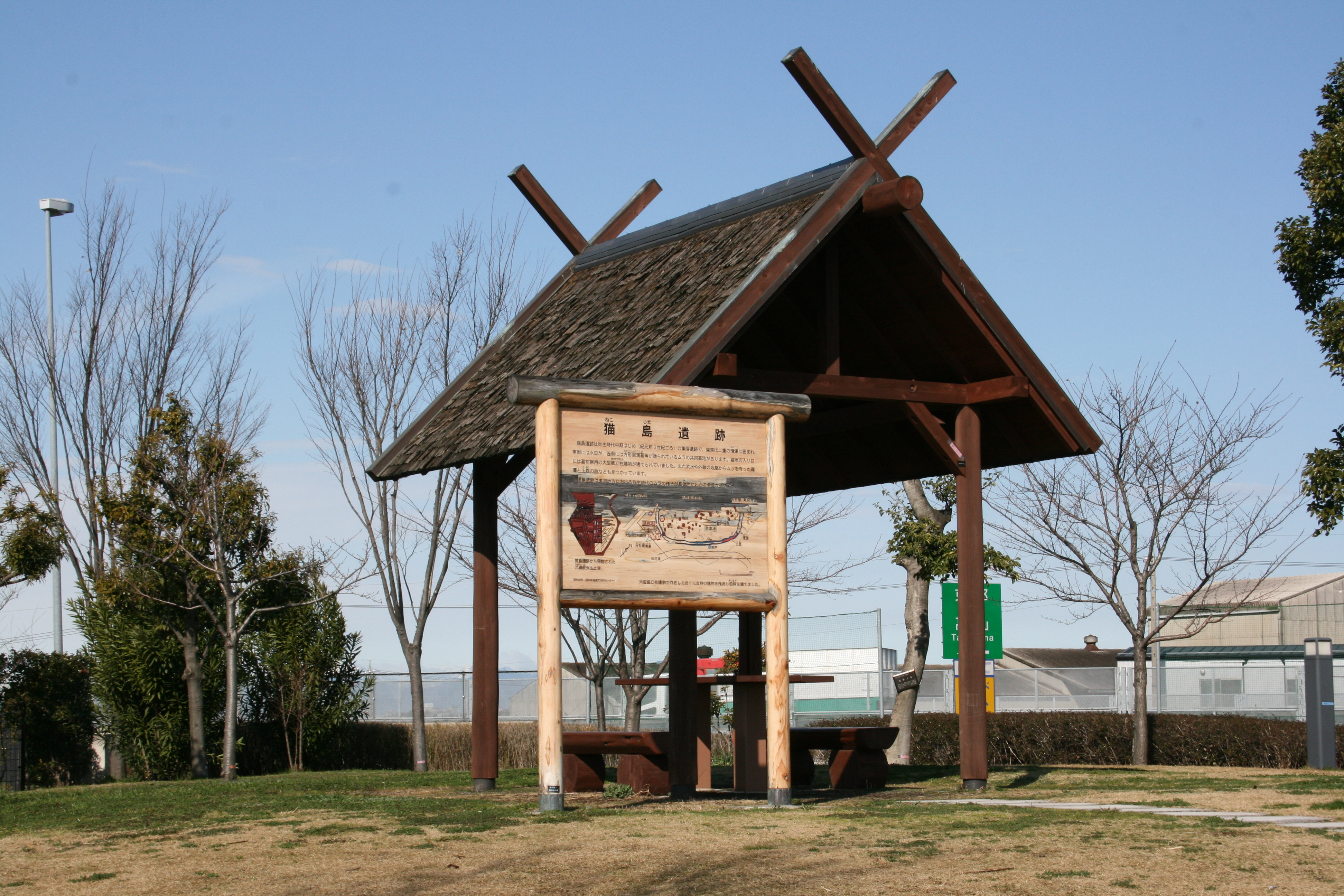 Nekojima Site in Owariichinomiya rest area of Meishin Expressway, Ichinomiya, Aichi prefecture, Japan.